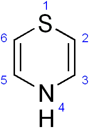 chemical structure of thiazine